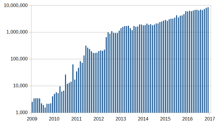 Bitcoin: number of transactions per month. Source of the raw data (CSV)